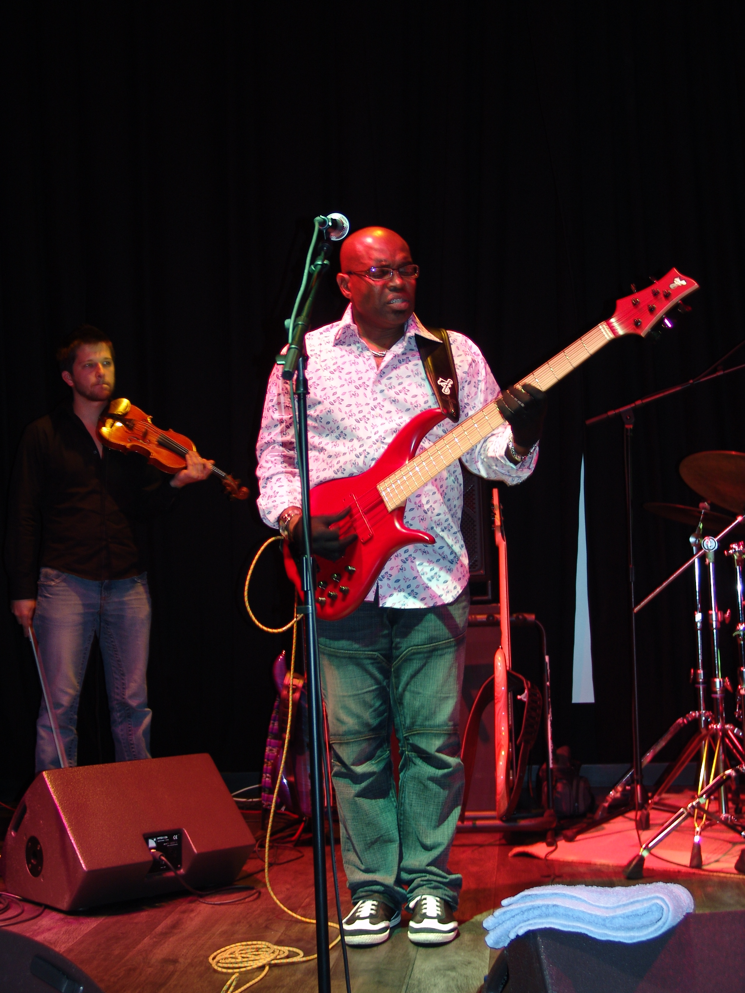 Etienne Mbappé - Su La Také - Dunkerque Jazz Club October the 16th, 2008